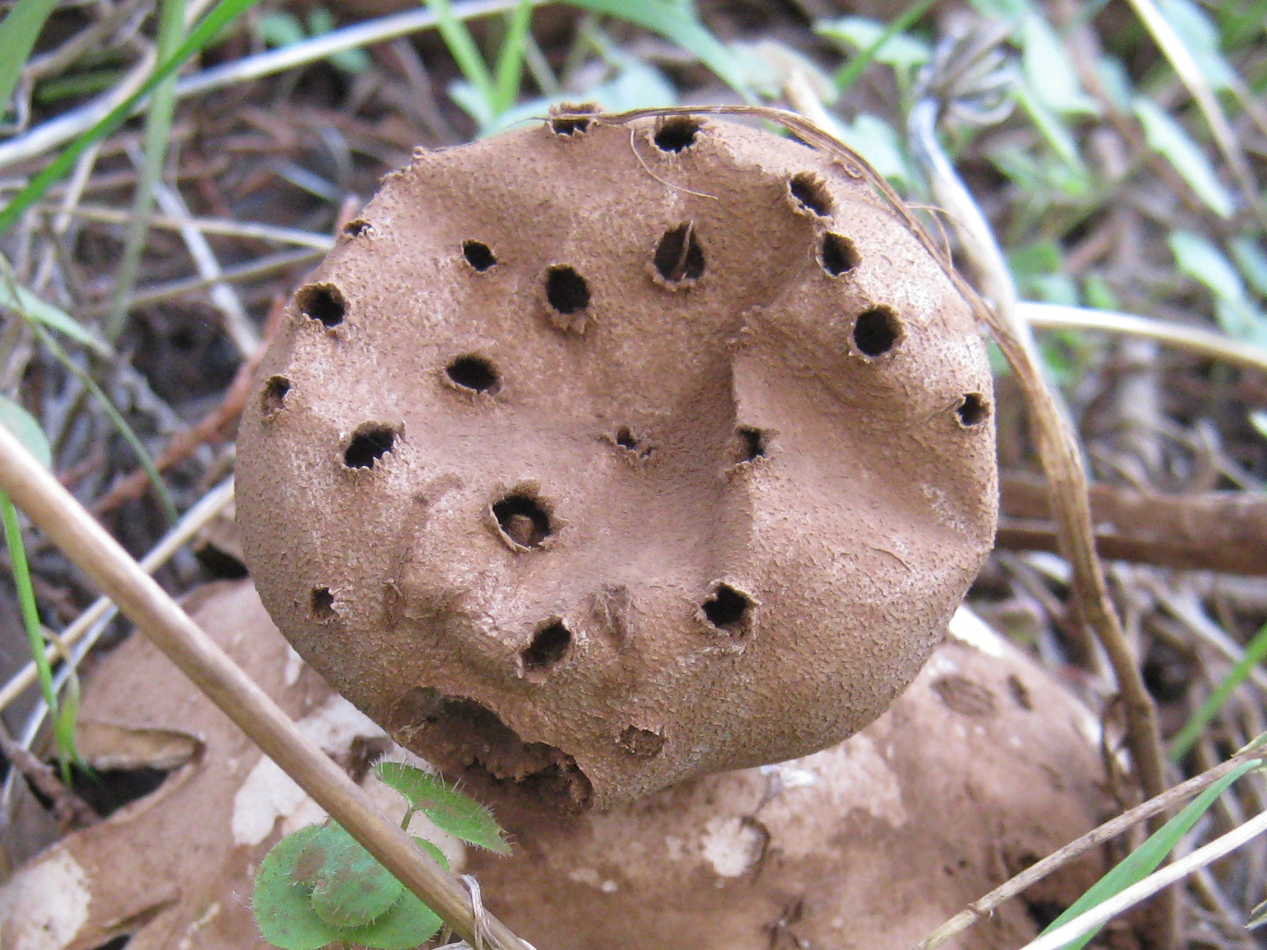 Myriostoma coliforme (Dicks.) Corda Image location: Parque de Monsanto, Lisboa, Portugal Taking into account Darv’s comment to the Observation MO79593 I decided to create two new observations of Myriostoma coliforme (this one and MO79680) with the material that I have from last year and that for some reason that I can’t explain why were not included in due time, and where not all are perfect specimens. I hope these illustrate well the characteristics of this rather strange species. Recognized by sight For more information about this, see the observation page at Mushroom Observer.